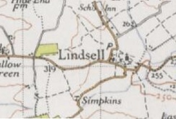 OS Map of the village of Lindsell